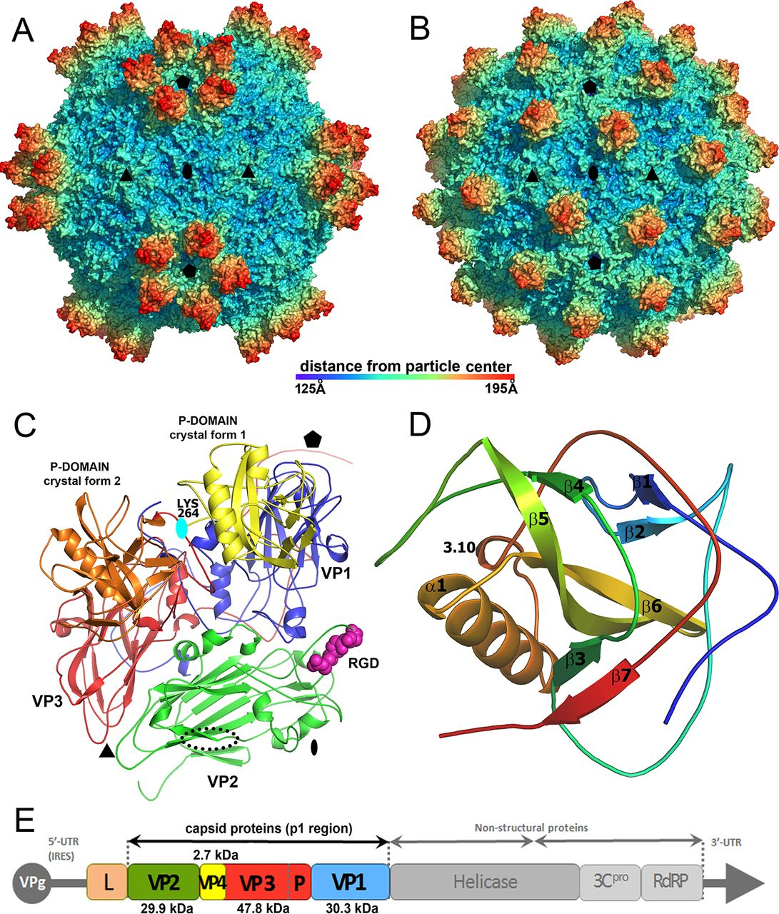 Structure of Slow Bee Paralysis (SBPV) virion and icosahedral asymmetric unit. Surface representations of SBPV virions determined in crystal form 1 (A) and crystal form 2 (B) show differences in the positioning of the P domains. The surfaces of the particles are rainbow-colored based on the distance from the particle center. Depressions are shown in blue and peaks in red. (C) Cartoon representation of SBPV icosahedral asymmetric unit. VP1 is shown in blue, VP2 in green, and VP3 in red. The P domain positioned as in crystal form 1 is shown in yellow and in crystal form 2 in orange. Locations of 5-fold, 3-fold, and 2-fold icosahedral symmetry axes are indicated by a pentagon, triangle, and oval, respectively. The RGD motif found in the GH loop of VP2 subunit is shown as space-filling model in magenta. The position of the RGD motif in FMDV is indicated with a dotted black oval. The cyan oval indicates the position of rotation axis relating the two P domain positions. (D) Cartoon representation of P domain rainbow colored from the N terminus in blue to the C terminus in red. Names of secondary structure elements are indicated. (E) Diagram of SBPV genome organization. Capsid proteins VP1, VP2, and VP3 were identified based on their location in the capsid according to the picornavirus convention. Predicted molecular masses of capsid proteins are specified. The location of the P domain of VP3 is indicated. VPg, viral protein, genome linked; L, leader peptide; IRES, internal ribosome entry site; UTR, untranslated region; 3CPRO, 3C protease; RdRP, RNA-dependent RNA polymerase.